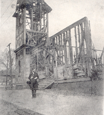 James A. Bryan observes what's left of the original building of 3rd Presbyterian in Birmingham, which was destroyed by fire in 1901.